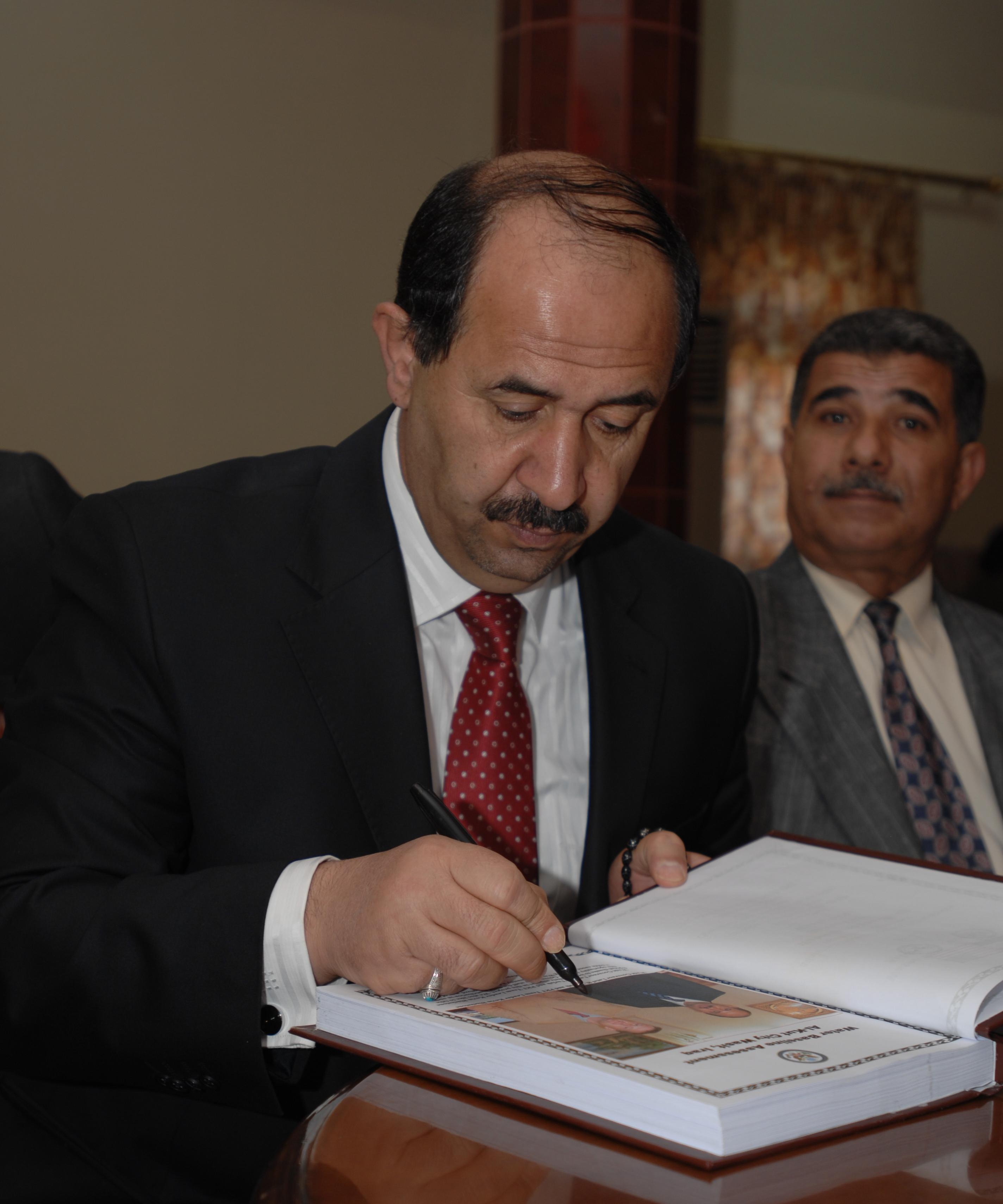 Wasit Province Governor Latif al-Tarfa signs an assessment of public works for Wasit province during a ceremony in Kut, Iraq, Jan. 6, 2010. The assessment, conducted over a year by members of the University of Baghdad, is the first completed in Iraq to this extent and addresses many issues facing the Wasit province.